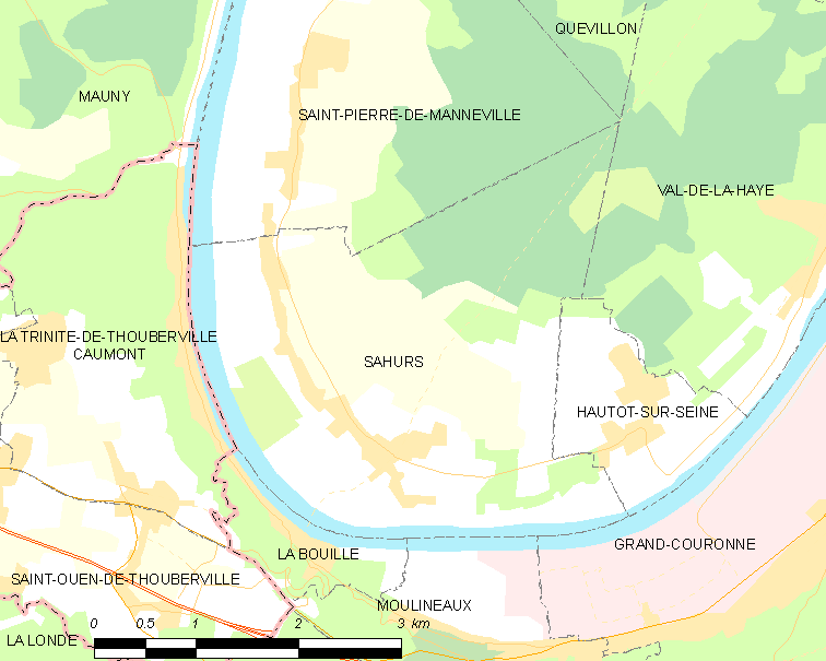 Map of French municipality Sahurs